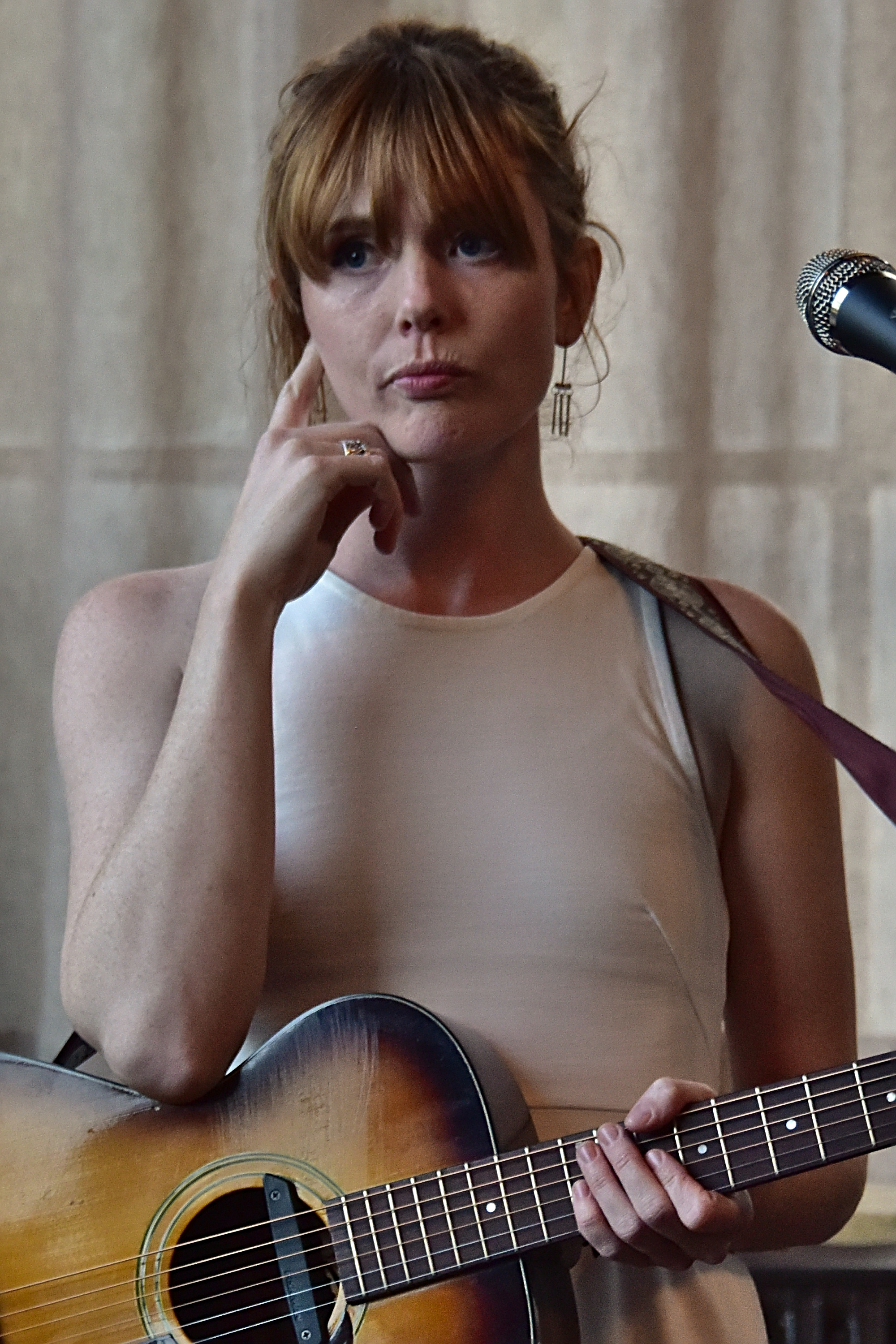 Haley, f.k.a. Haley Bonar, preparing for a performance at Tattersall Distilling in Northeast Minneapolis.